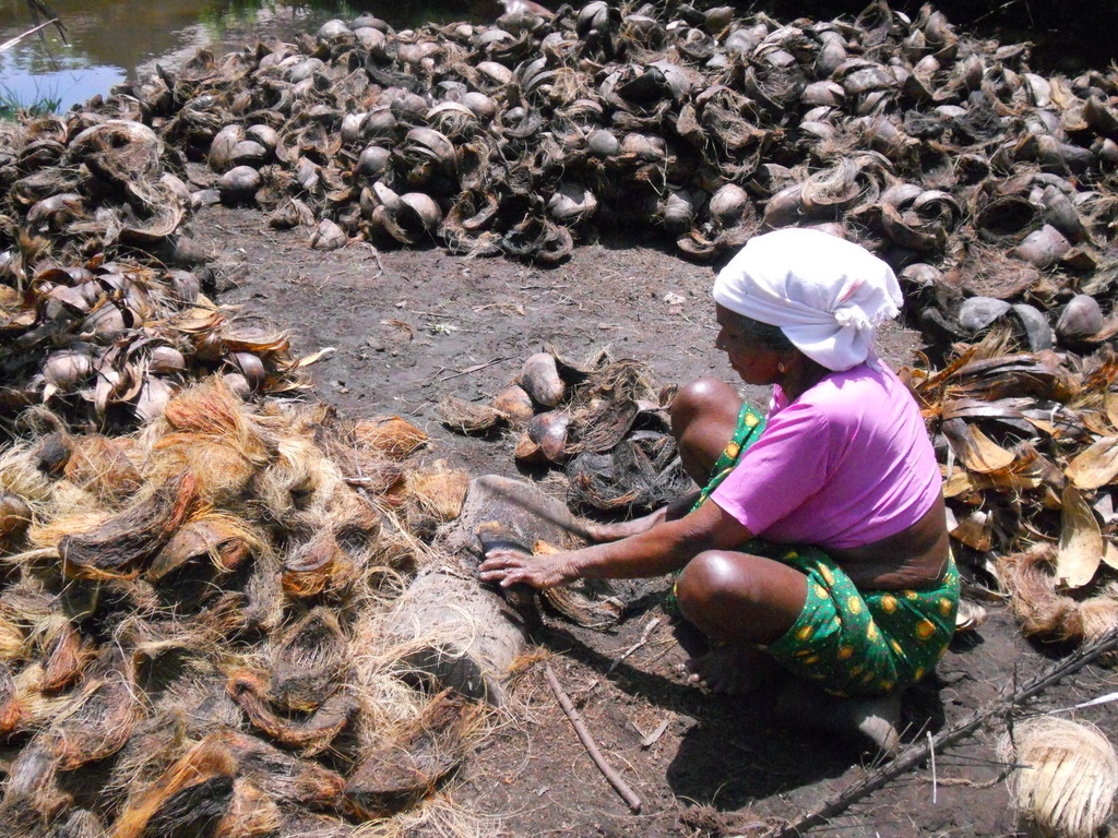 Coir worker This media file is uploaded with India loves Wikipedia event.